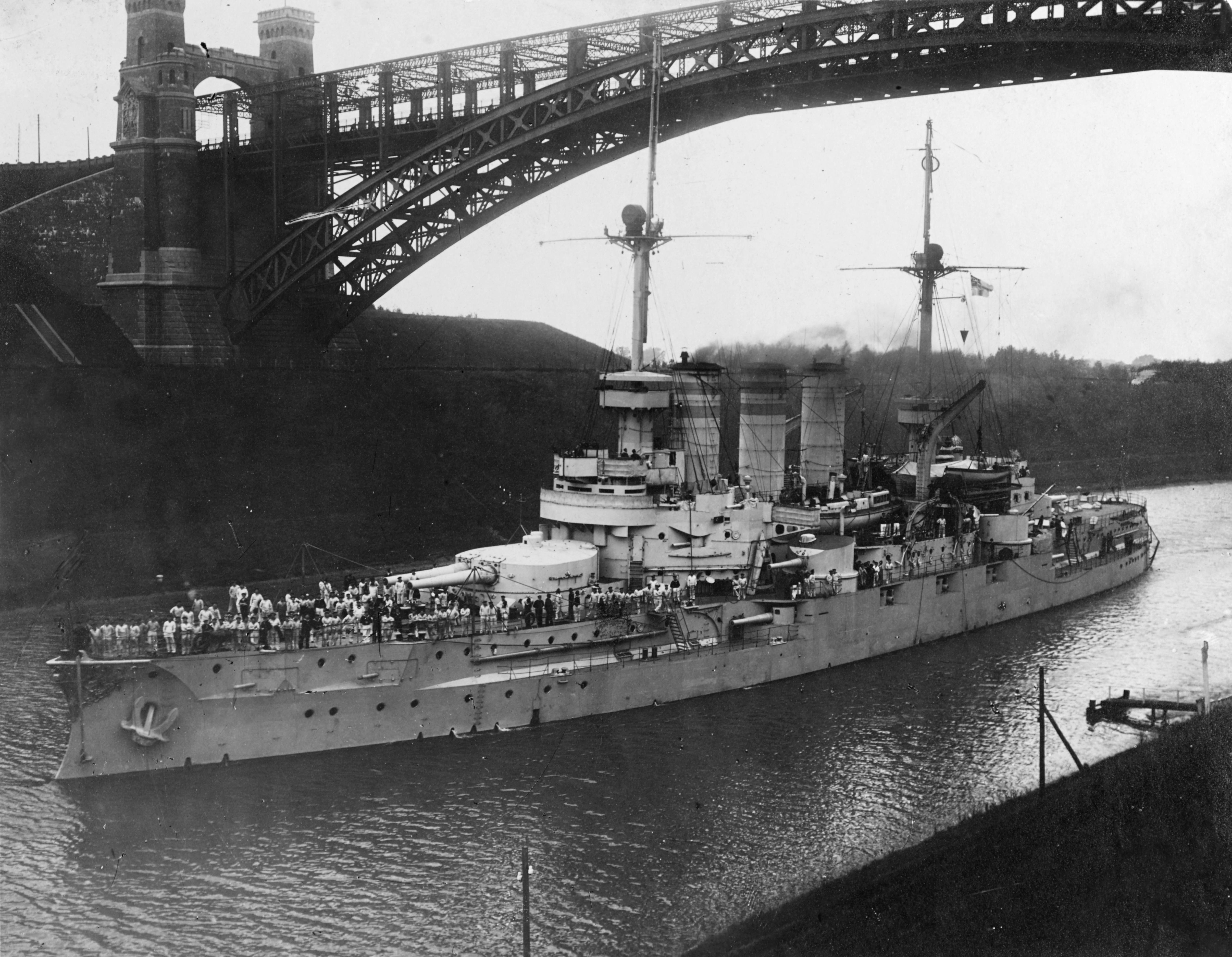 The German battleship SMS Lothringen passing under the Levensau Bridge of the Kiel Canal before the First World War.